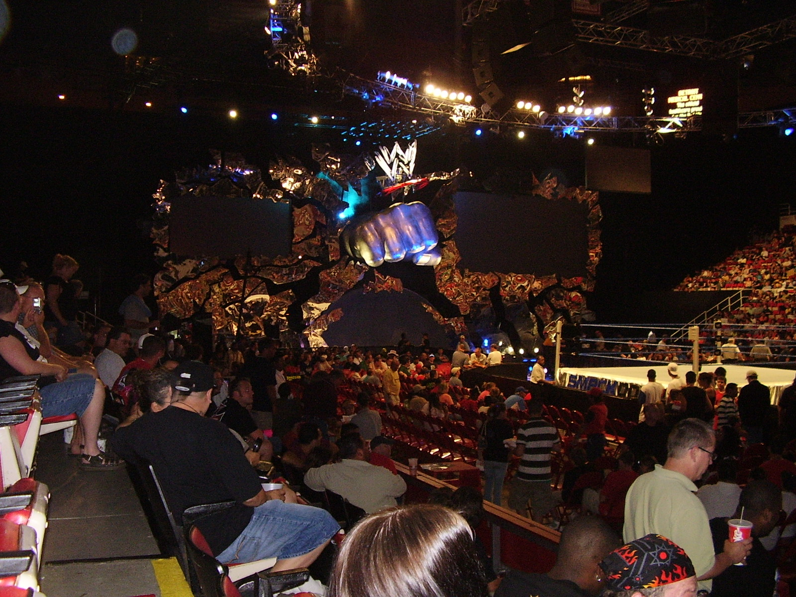 Description: WWE Friday Night SmackDown! Comment: WWE Friday Night SmackDown! Stage Category:Professional wrestling free use media